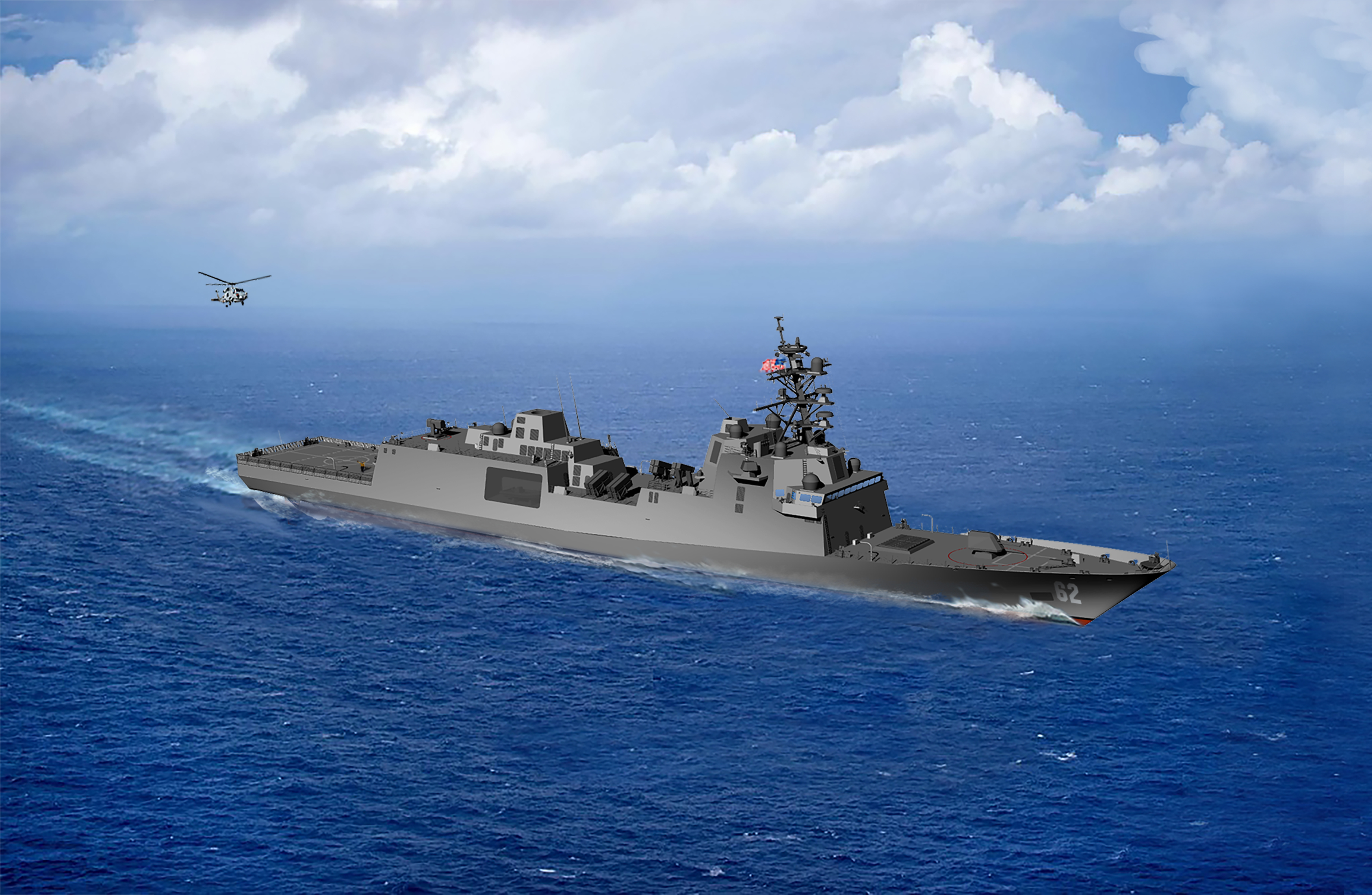 An artist rendering of the U.S. Navy guided-missile frigate FFG(X). The new small surface combatant will have multi-mission capability to conduct air warfare, anti-submarine warfare, surface warfare, electronic warfare, and information operations. The design is based on the FREMM multipurpose frigate. A contract for ten ships was awarded to Marinette Marine Corporation, Wisconsin (USA), on 30 April 2020.